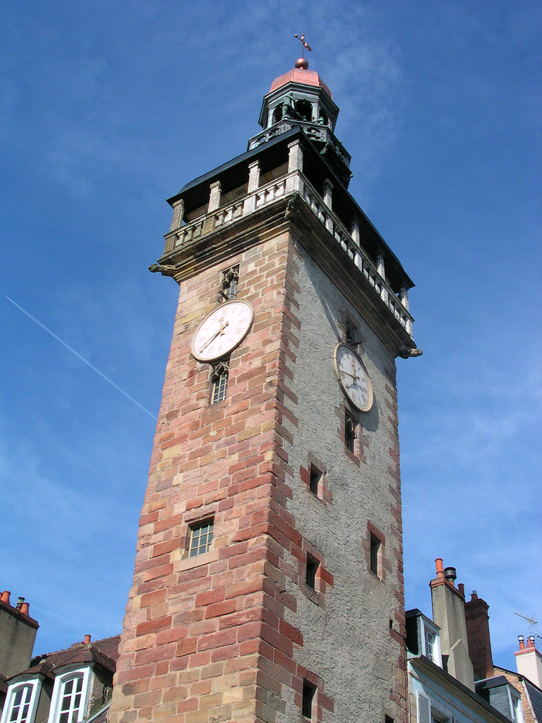 Jacquemart tower